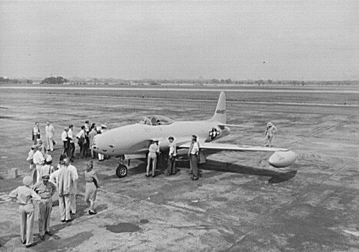 A U.S. Air Force Lockheed P-80A-1-LO Shooting Star (s/n 44-84997), circa 1946.